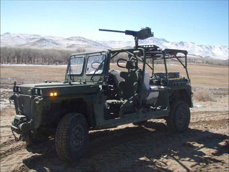 United States Marine Corps Internally Transportable Vehicle (Growler)